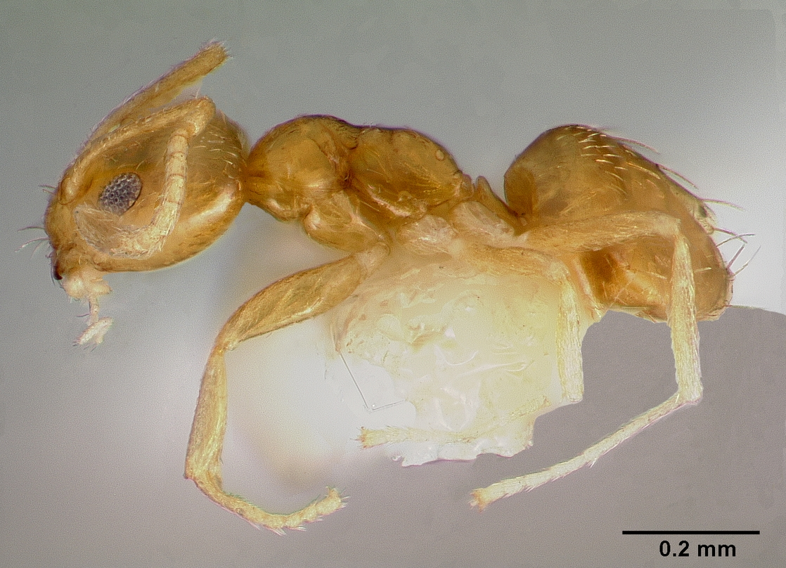 Profile view of ant Plagiolepis alluaudi specimen casent0003320.